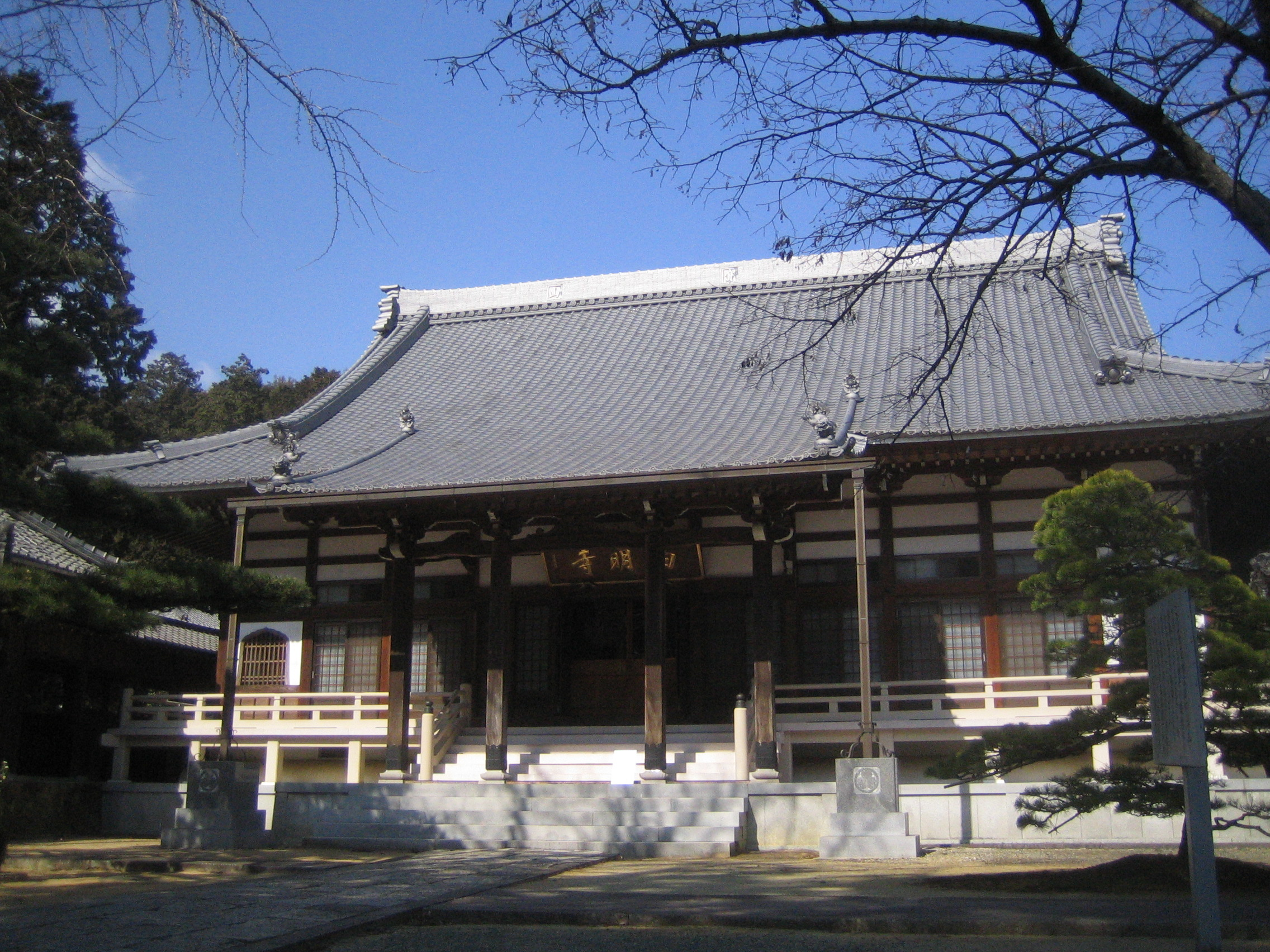 Main hall (本堂 hondō) of Saimyoji (西明寺), located at 7 Teramachi, Yawatacho, Toyokawa, Aichi, Japan